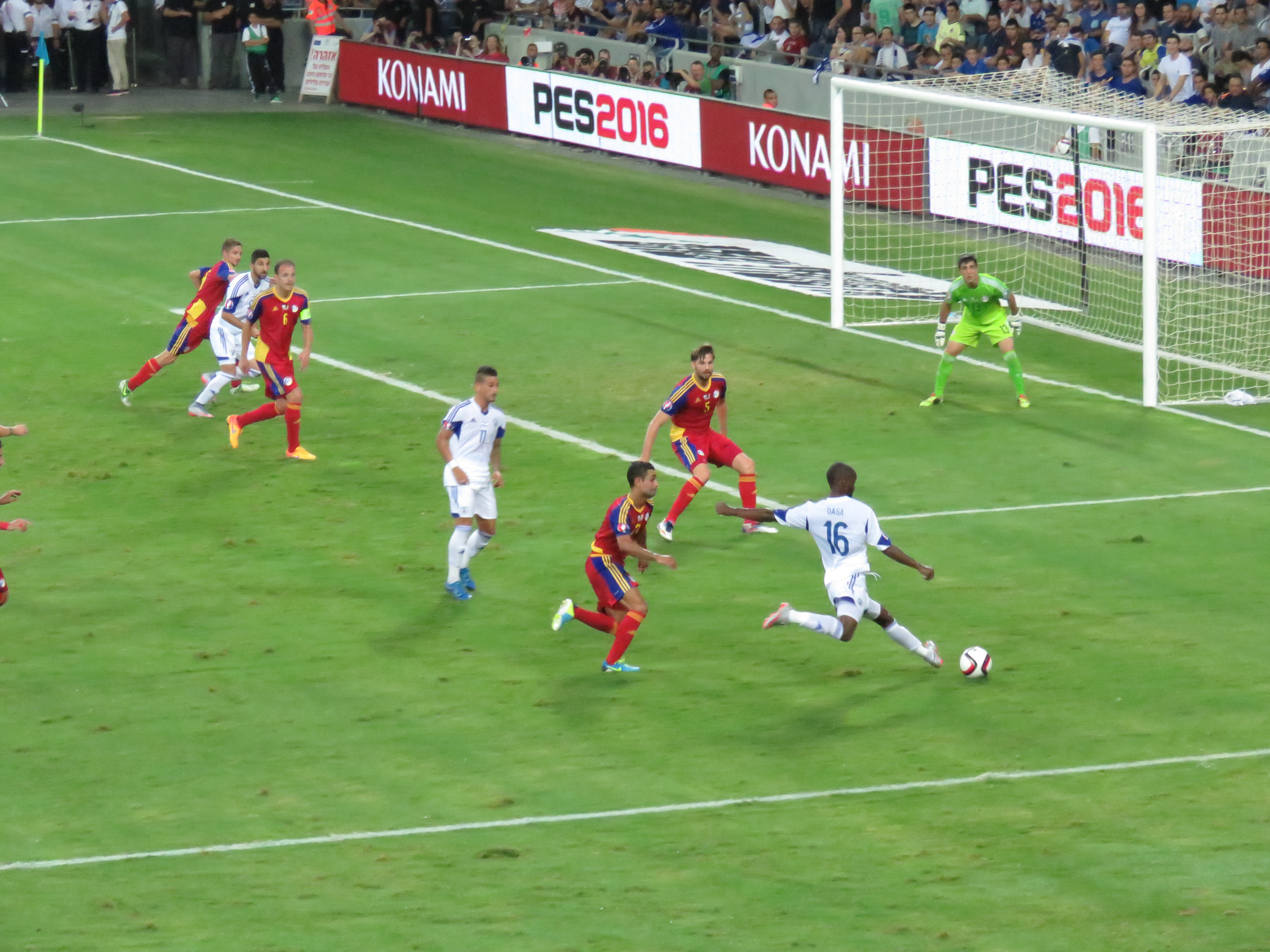 Israel vs. Andorra - September 3, 2015